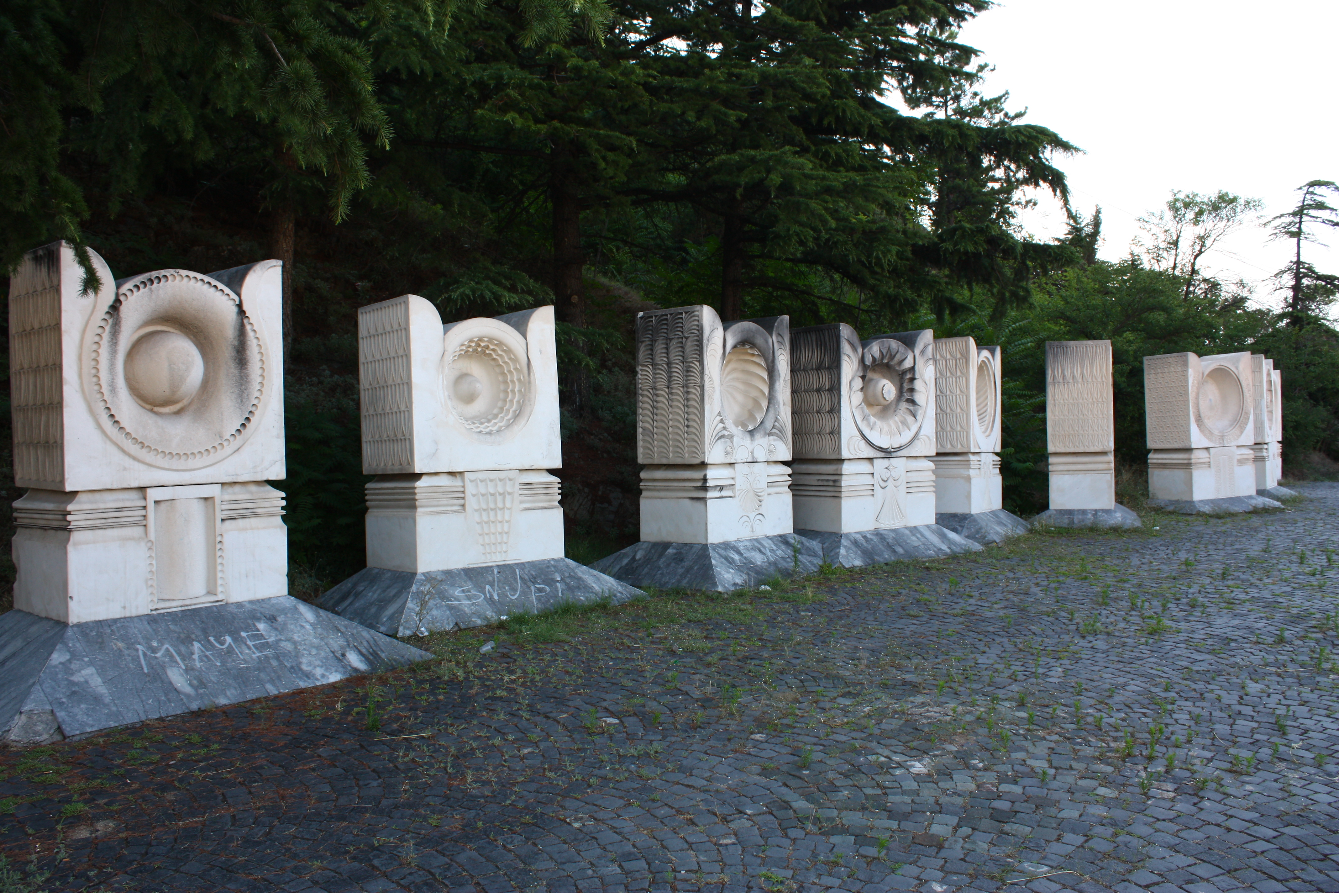 Monument to fallen soldiers in Štip, Macedonia